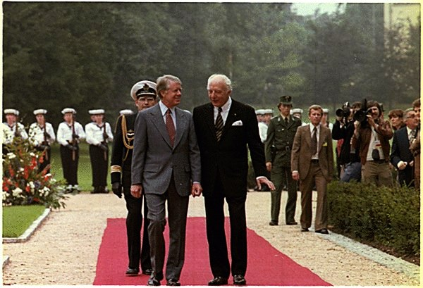 Germany, Bonn, Villa Hammerschmidt: Federal President Walter Scheel welcomes U.S. President Jimmy Carter in front of his official residence.